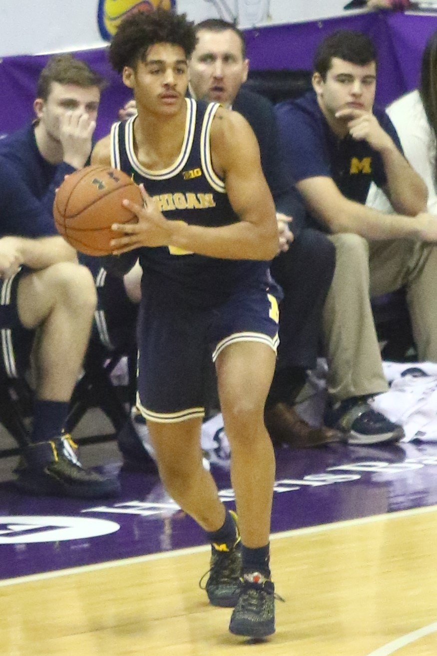 Jordan Poole playing for the w:2017–18 Michigan Wolverines men's basketball team at Allstate Arena